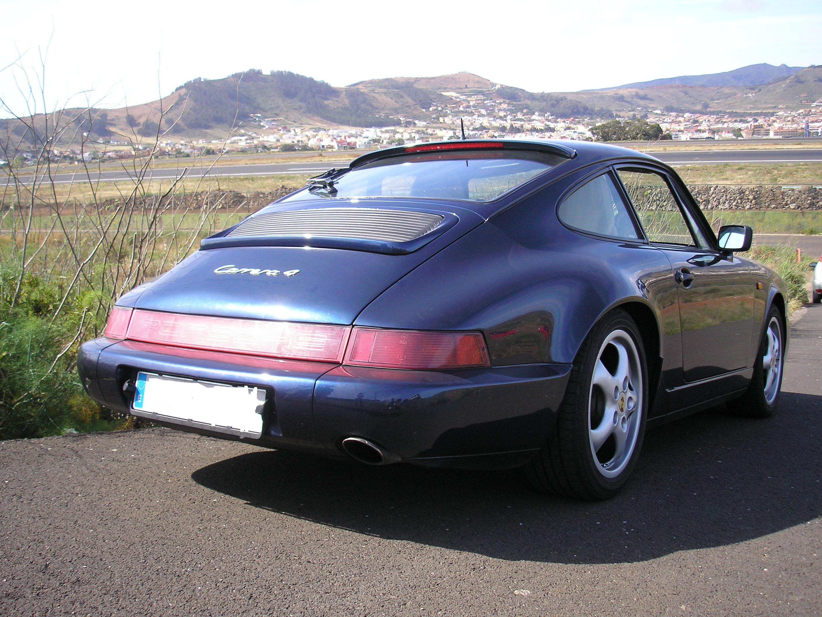 Porsche 911 (964)